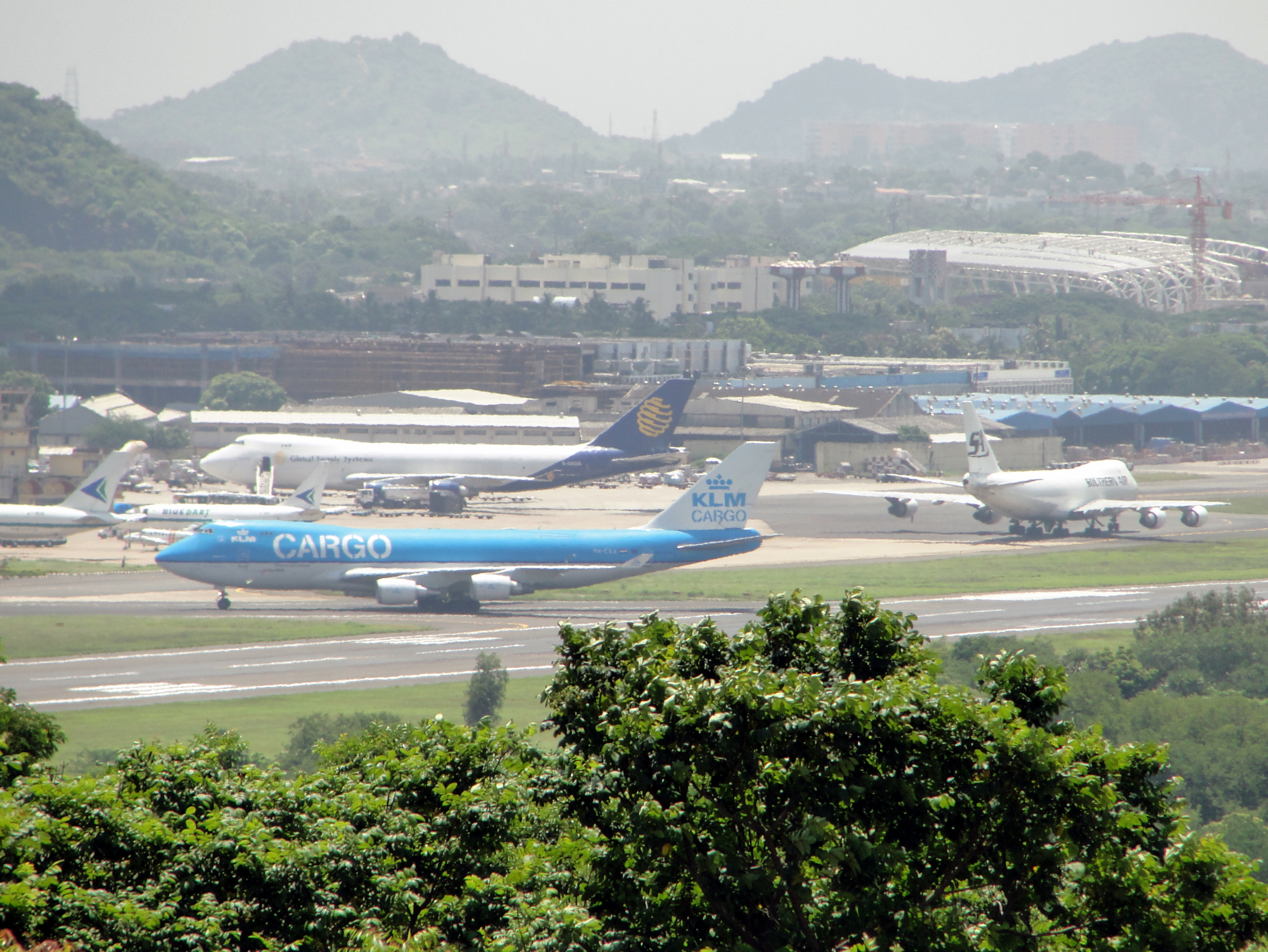 Three 747s at Chennai Cargo Terminal. Also the New domestic terminal under construction is visible.